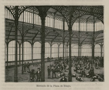 Mercado de la Plaza de Riego, Madrid.